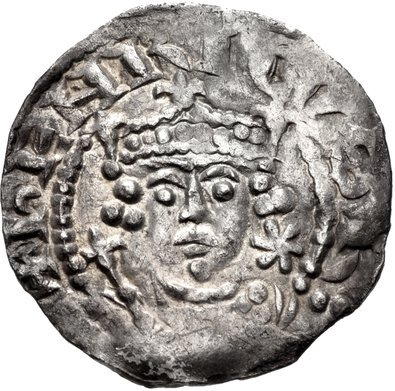 Henry I (1100-1135) Type Standard circulation coin Years 1100-1135 Value 1 Penny (1/240) Currency Kings of All England (924-1158) Composition Silver